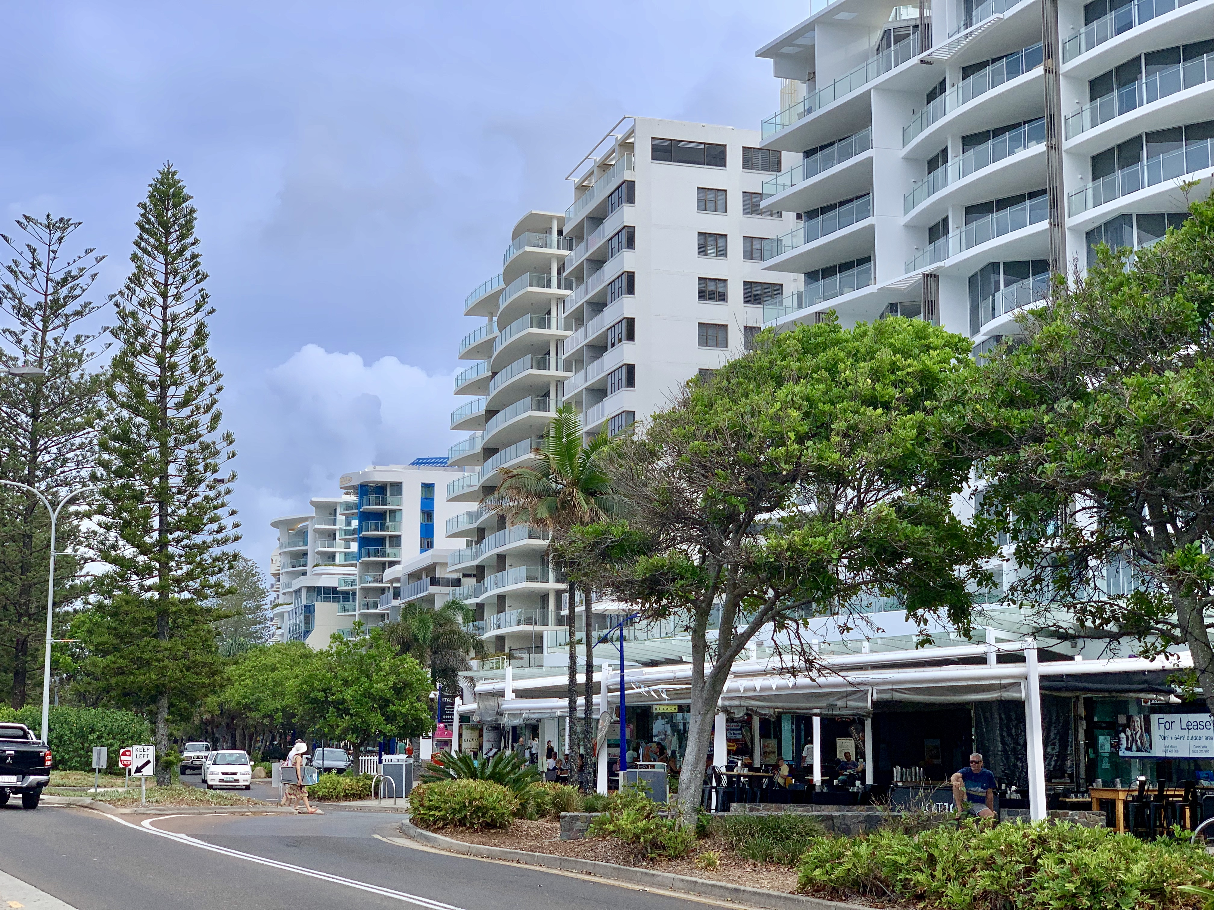 Mooloolaba Esplanade at Mooloolaba, Queensland